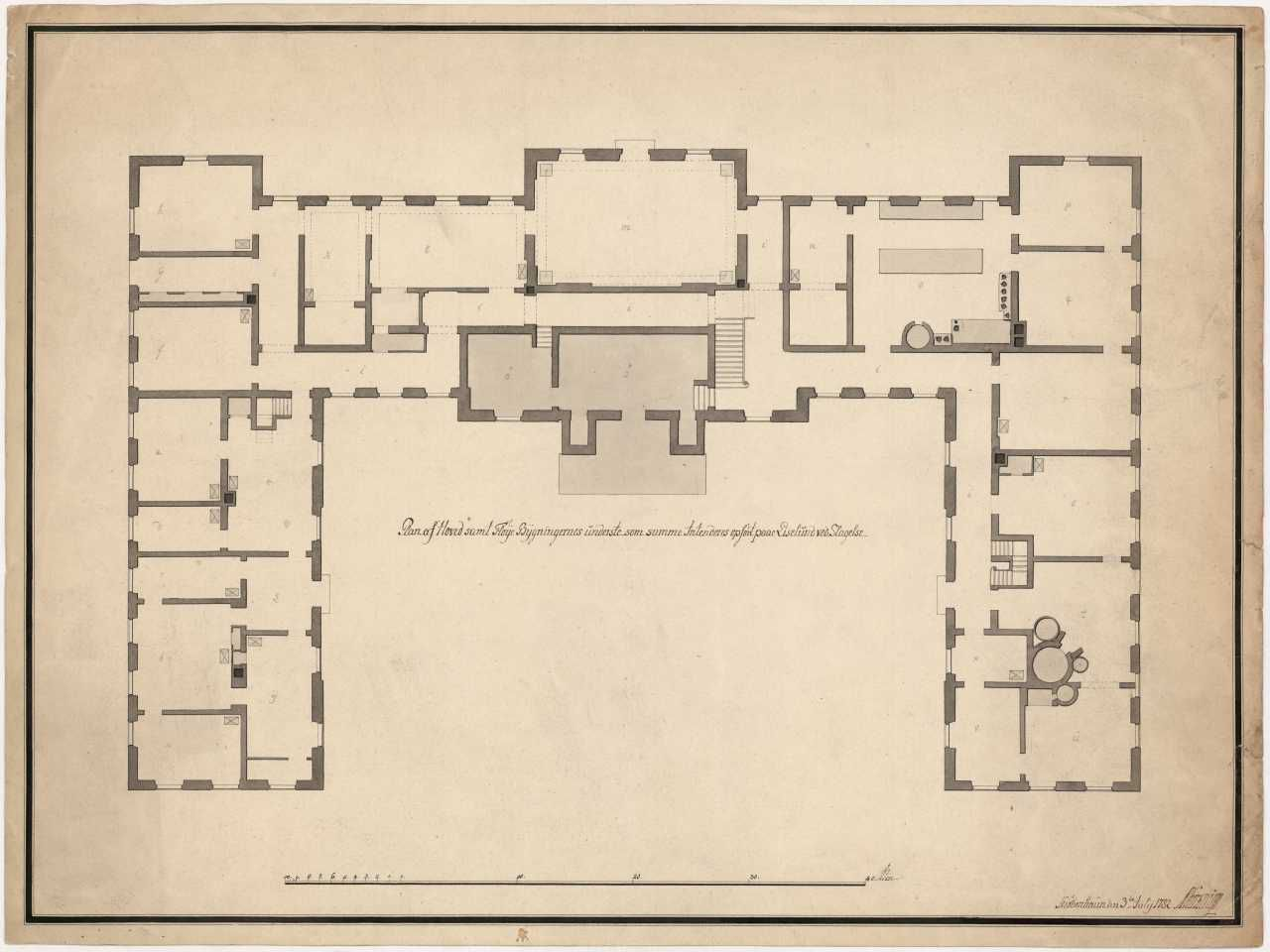 Plan of the manor house Store Frederikslund north of Slagelse, Denmark